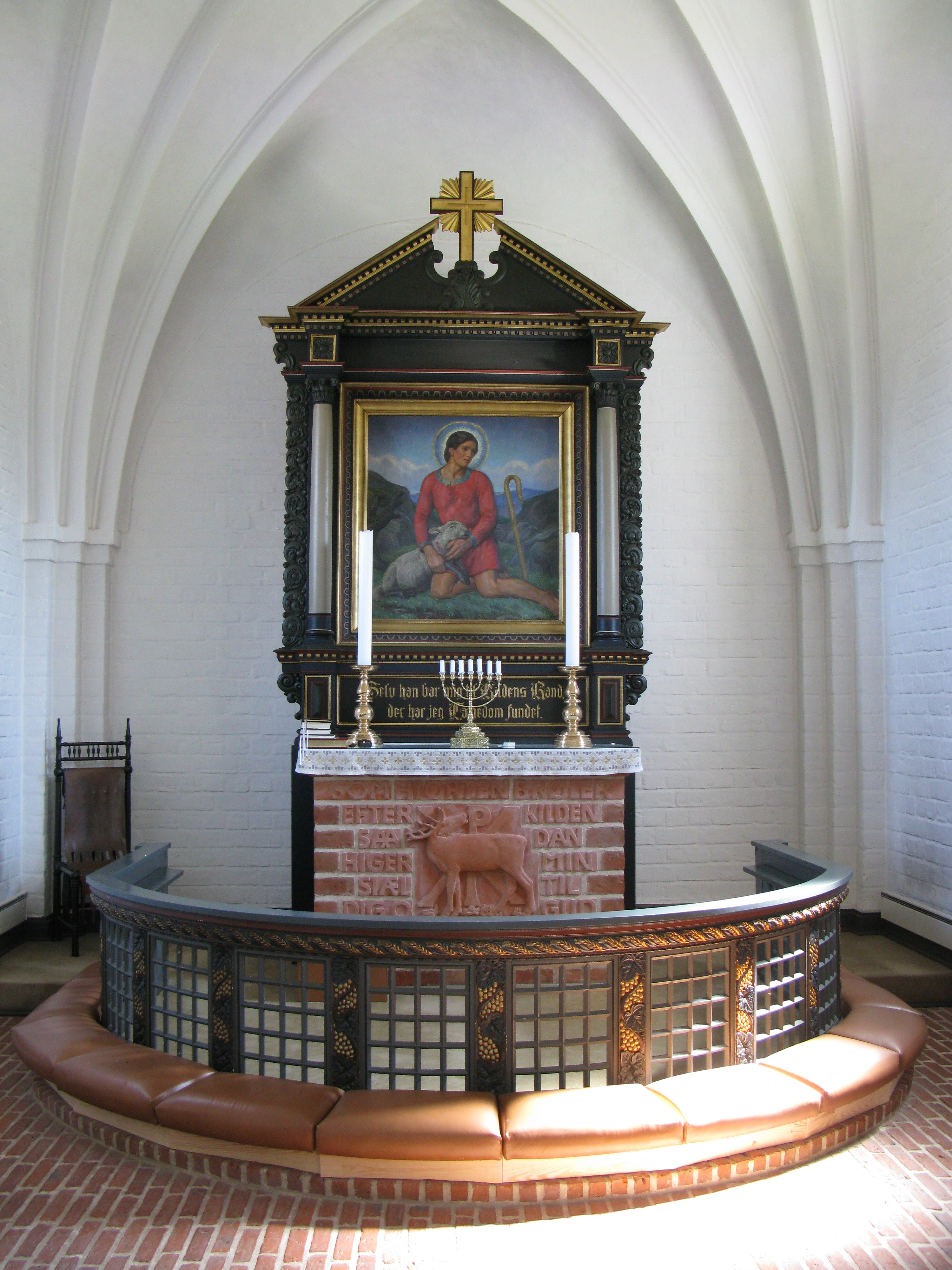 altar of the church of Kvissel, Aalborg Diocese